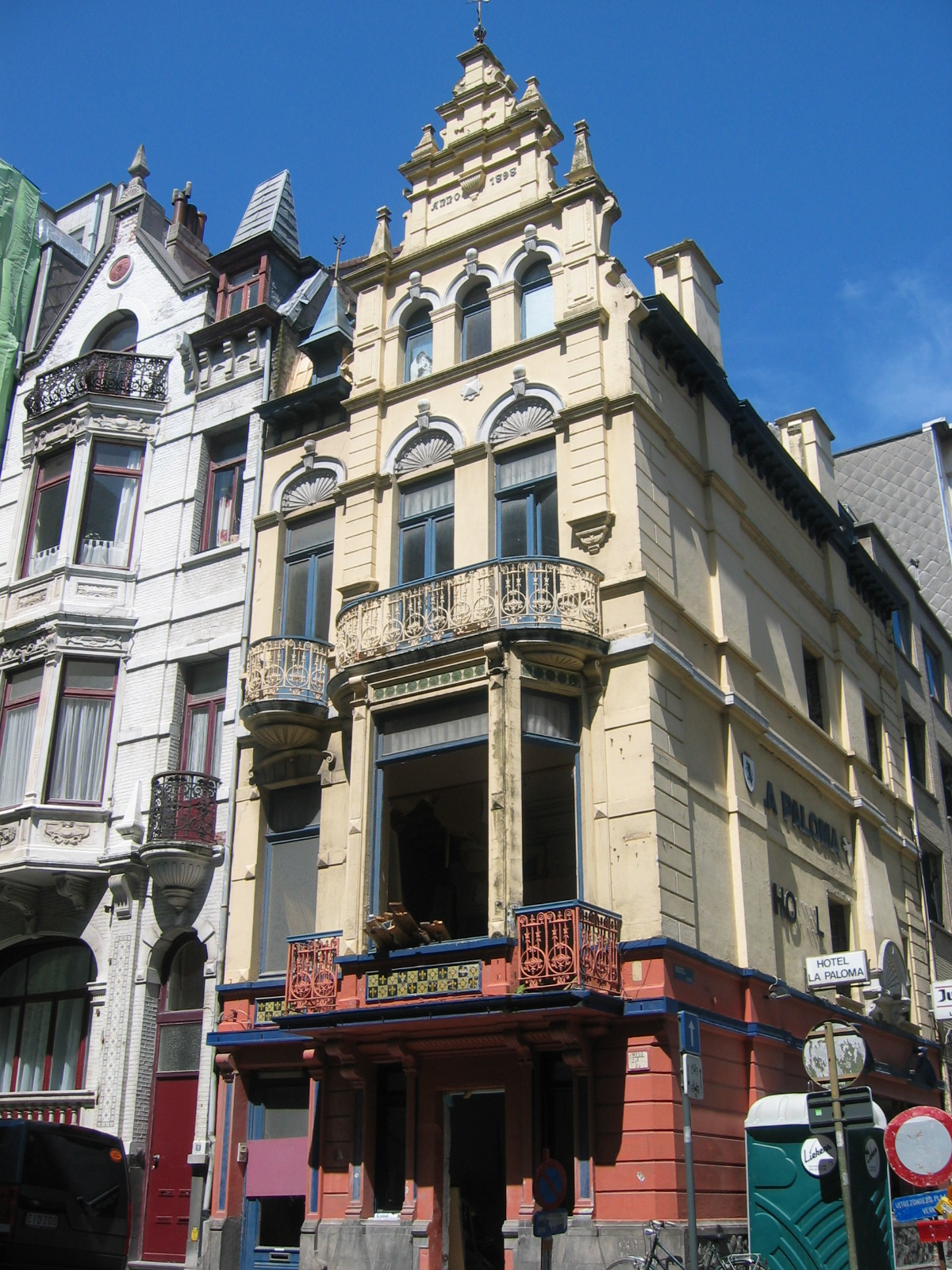 La Paloma